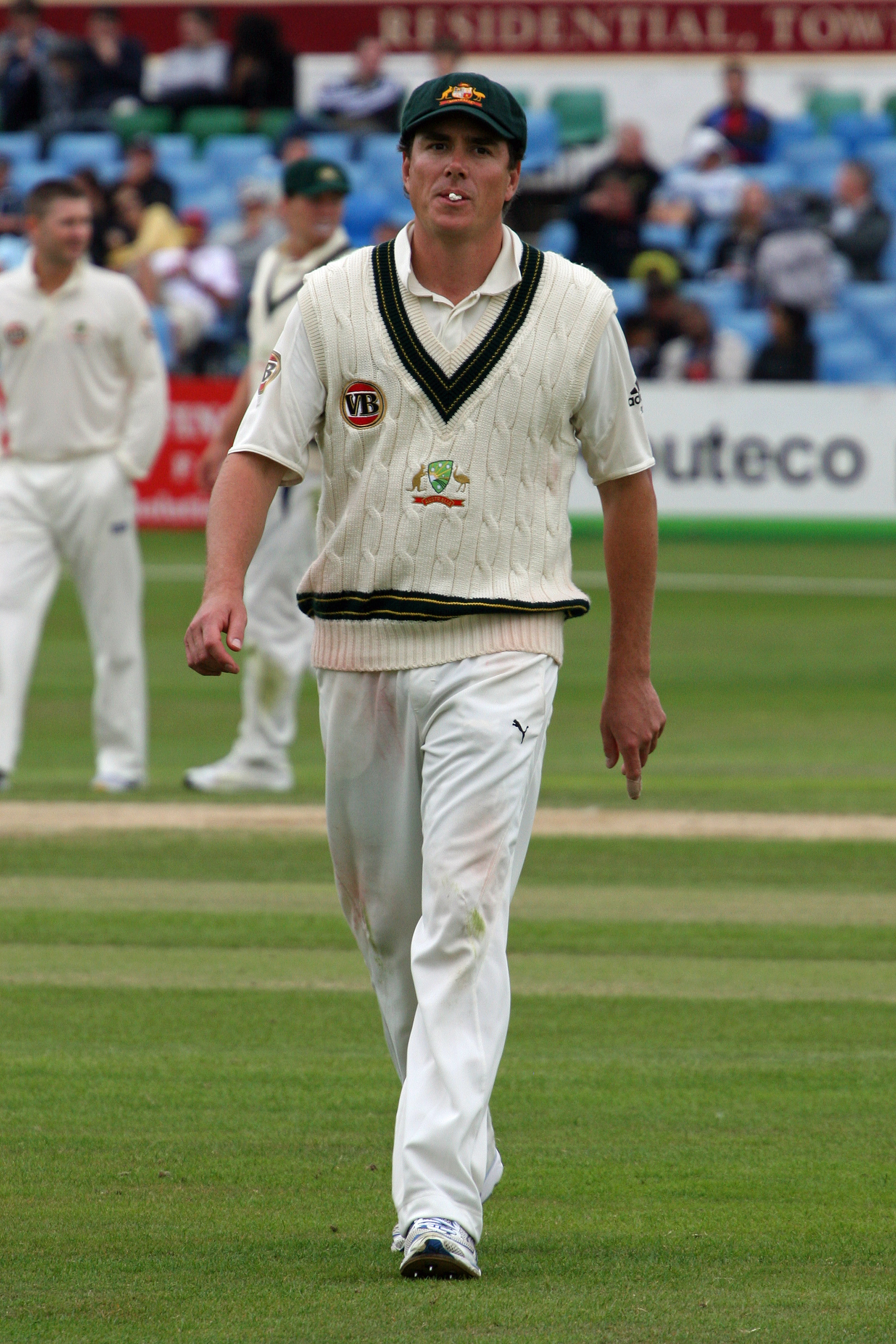 Marcus North of Australia in the field against Northamptonshire.